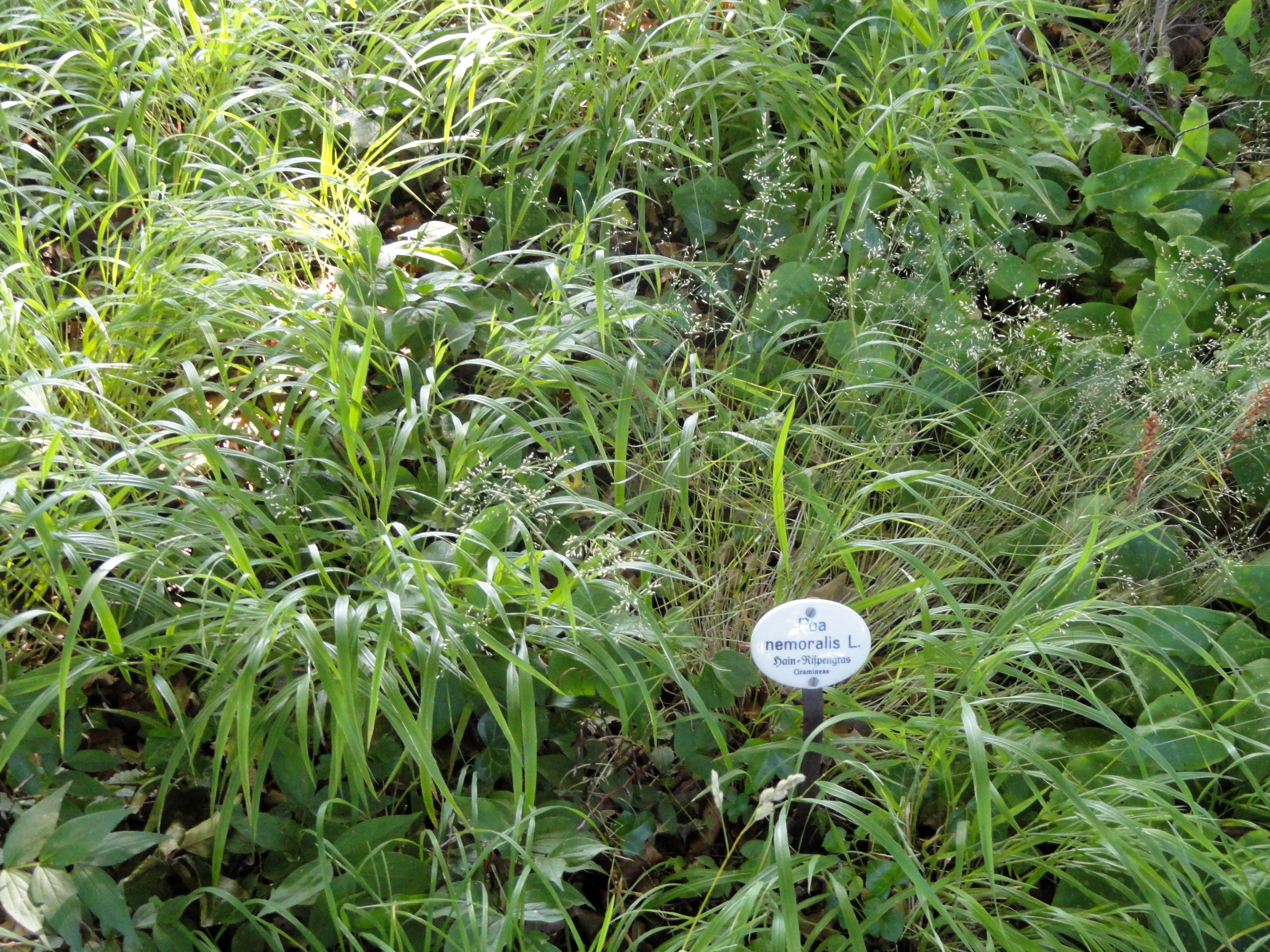 Botanical specimen in the Botanischer Garten, Frankfurt am Main, located at Siesmayerstraße 72, Frankfurt am Main, Germany.